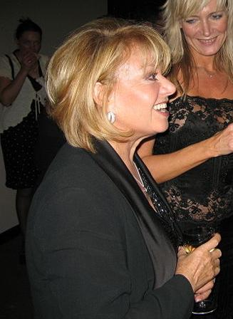 Elaine Paige at the Gala Final of the BBC Radio 2 Voice of Musical Theatre 2006.